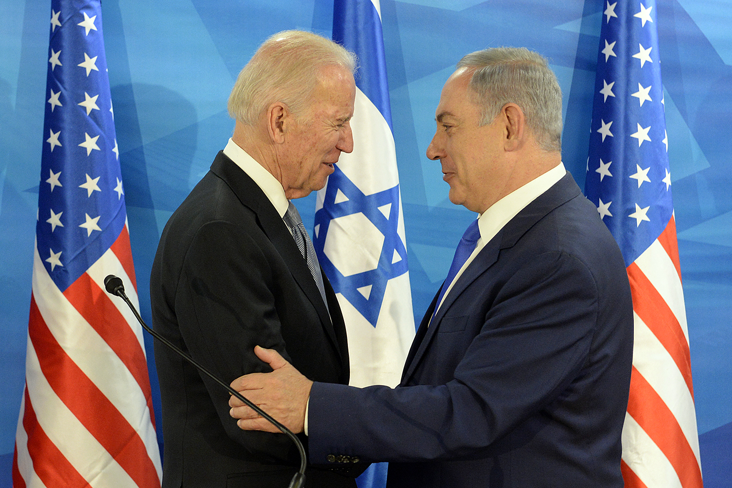 Vice President Joe Biden visit to Israel March 2016 Meet with PM Benjamin Netanyahu